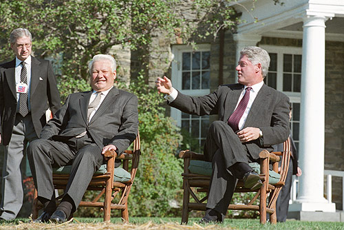 FRANKLIN ROOSEVELT HOUSE-MUSEUM, HYDE PARK. With American President Bill Clinton.